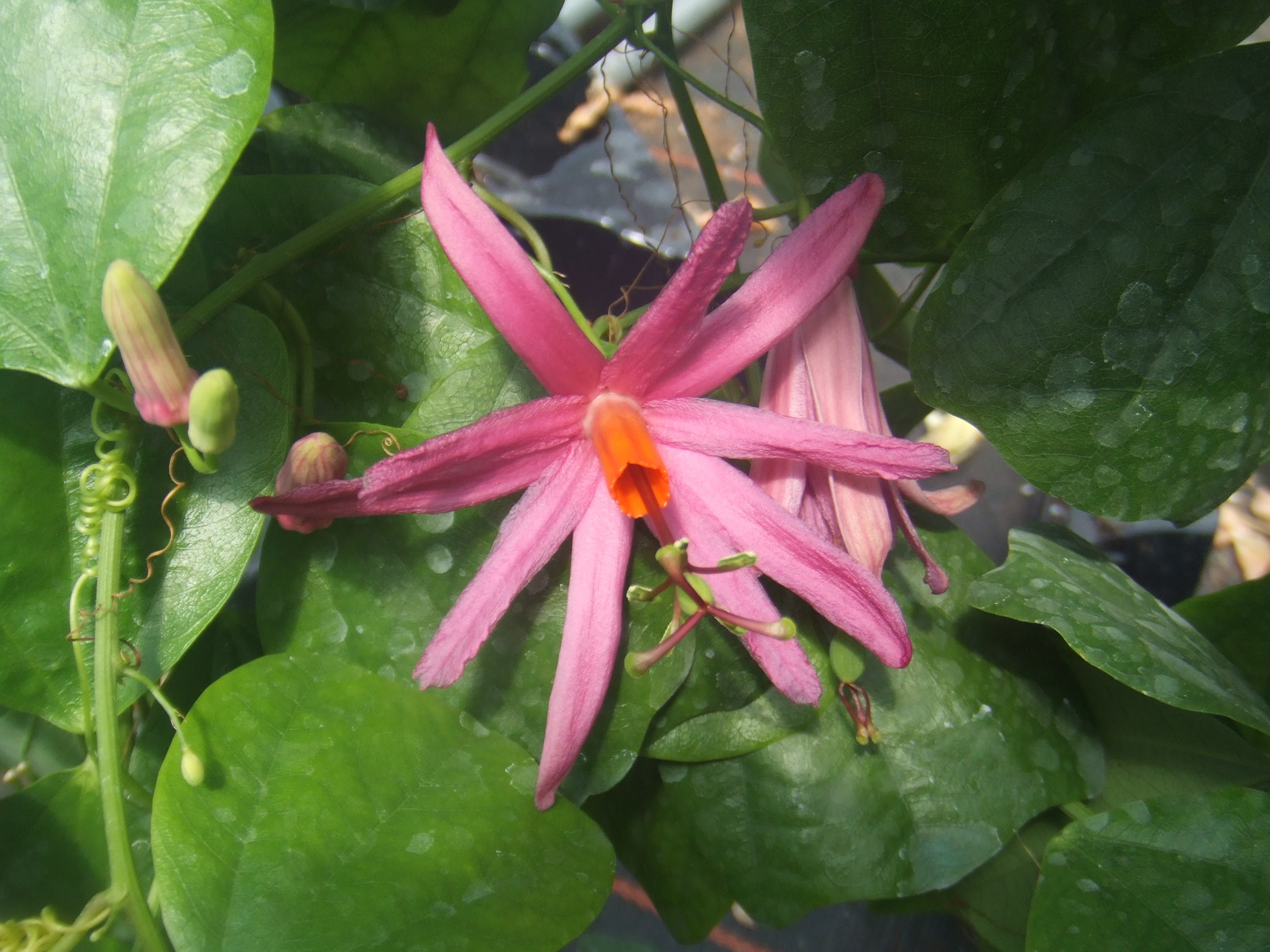 Passiflora tulae, picture taken at Passiflorahoeve in Harskamp, The Netherlands